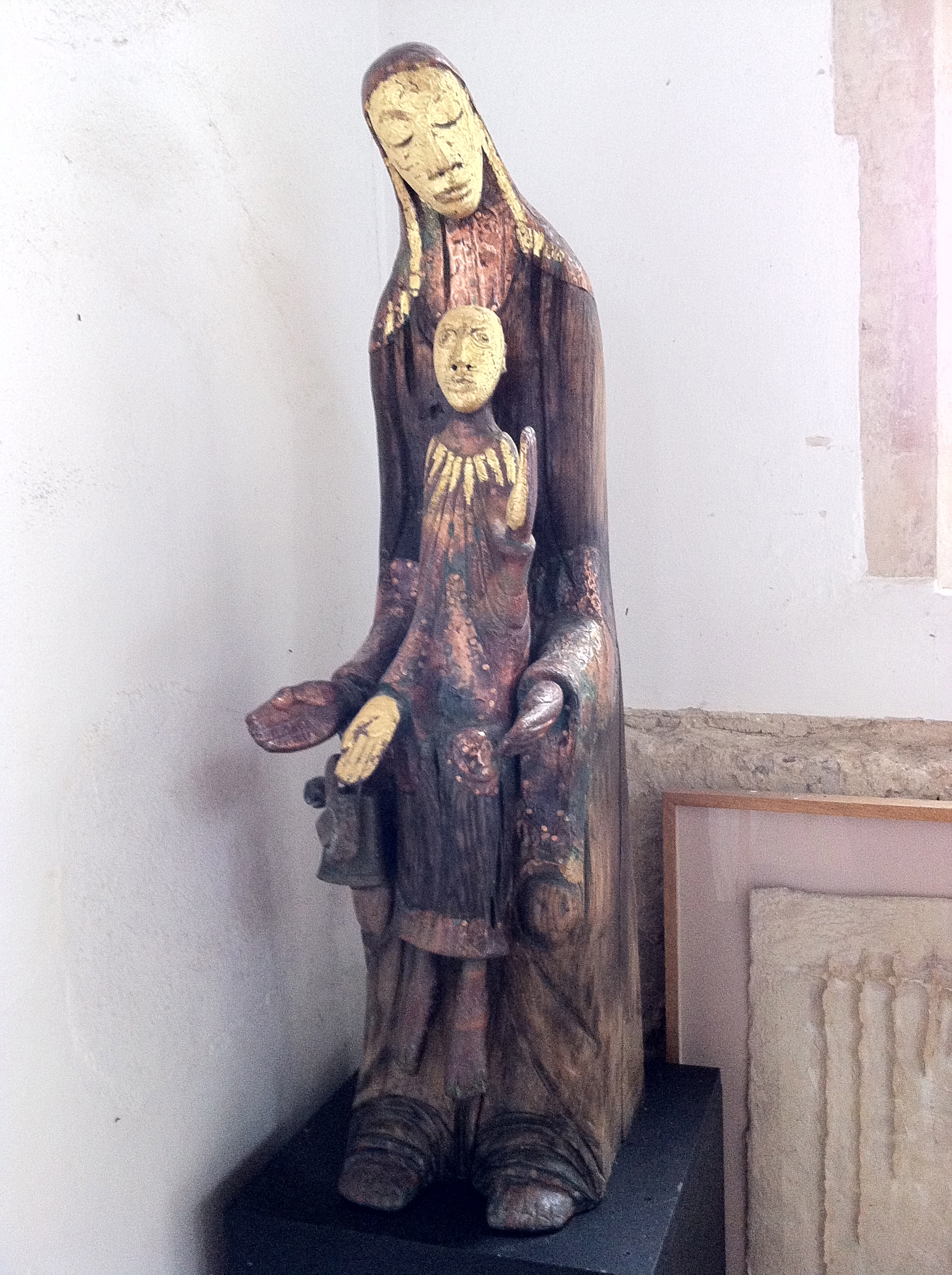 Statue of the BVM by Peter Ball, Holy Trinity Blythburgh